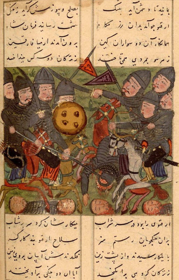 Battle of Meiafarakin (1259).